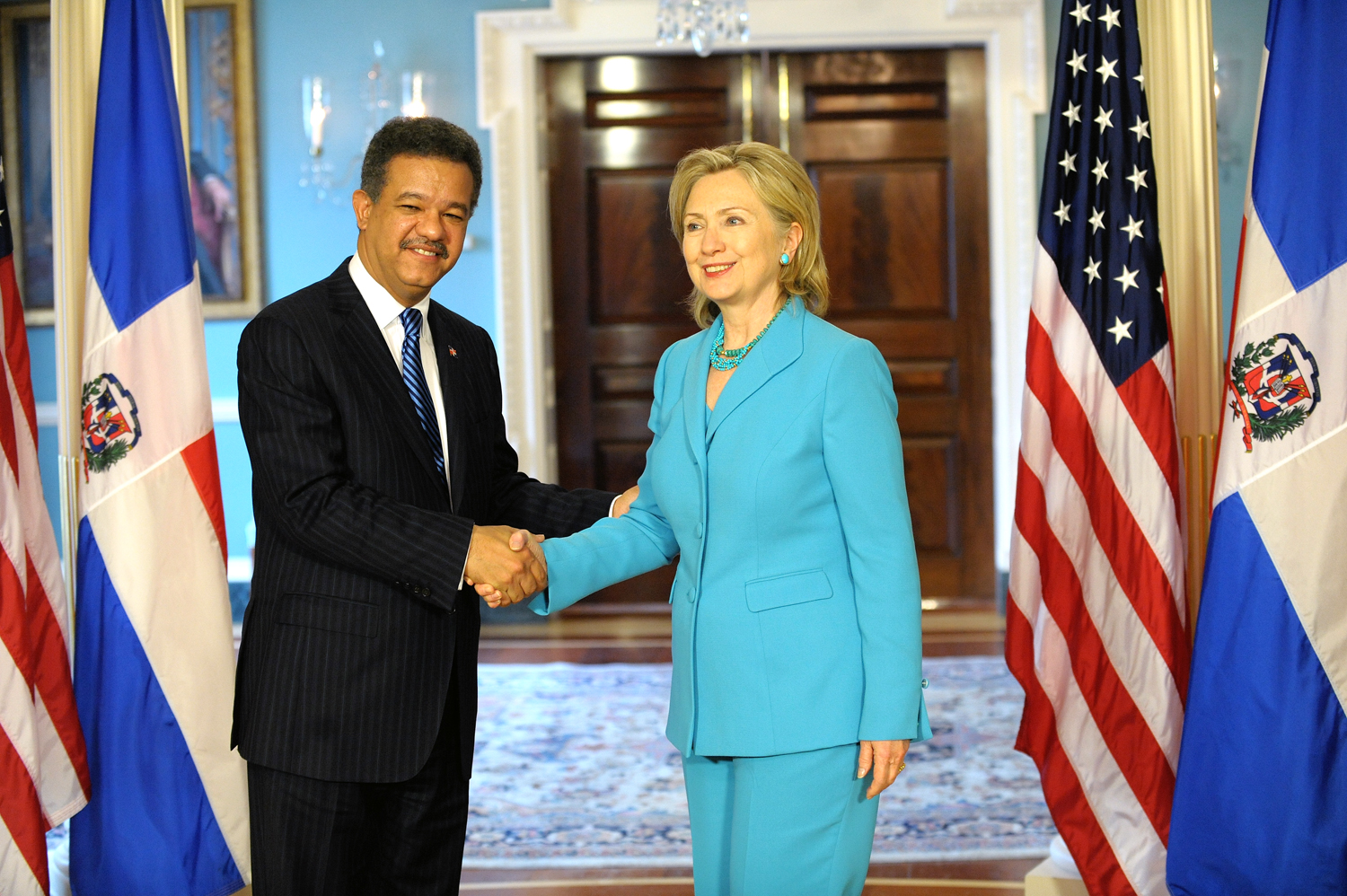 Secretary Clinton Shakes Hands With Dominican Republic President Leonel Fernandez.